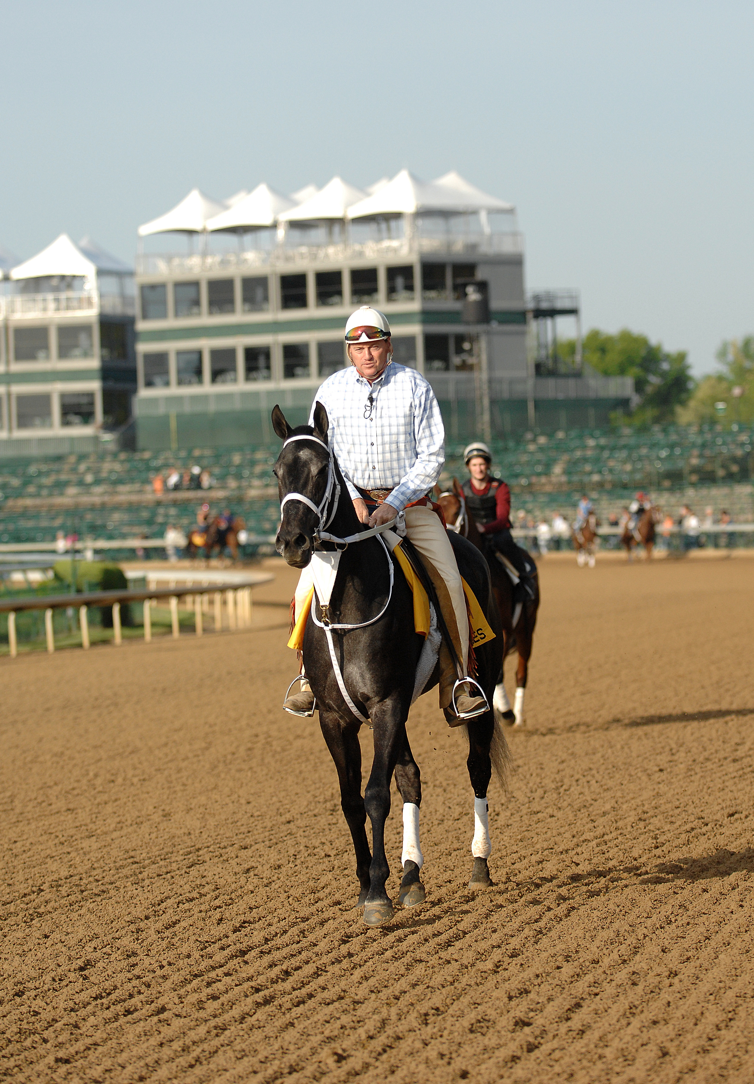 Eight Belles at Churchill Downs on May 1, 2008, ridden by her trainer Larry Jones.